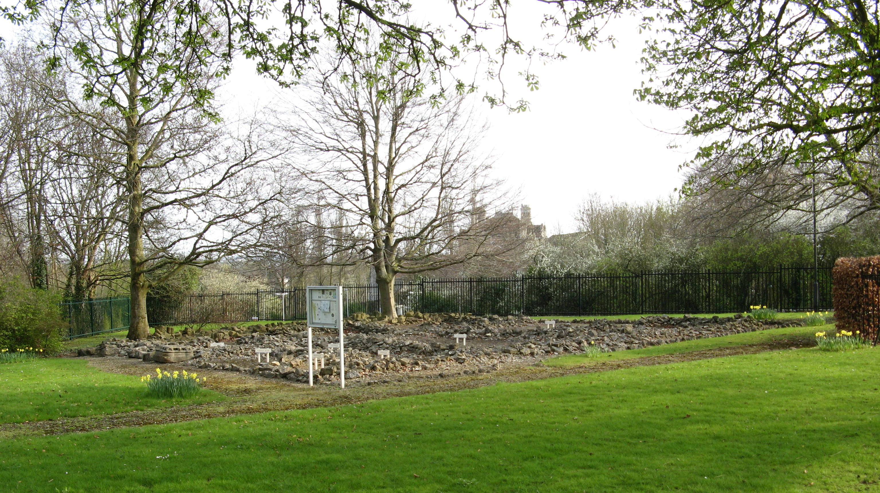 The remains of a small roman villa, about 50 feet square, in the grounds of Somerdale Factory, Keynsham, near the main road entrance to the site. The remains were discovered during the construction of the factory in 1922, and moved to the present site.